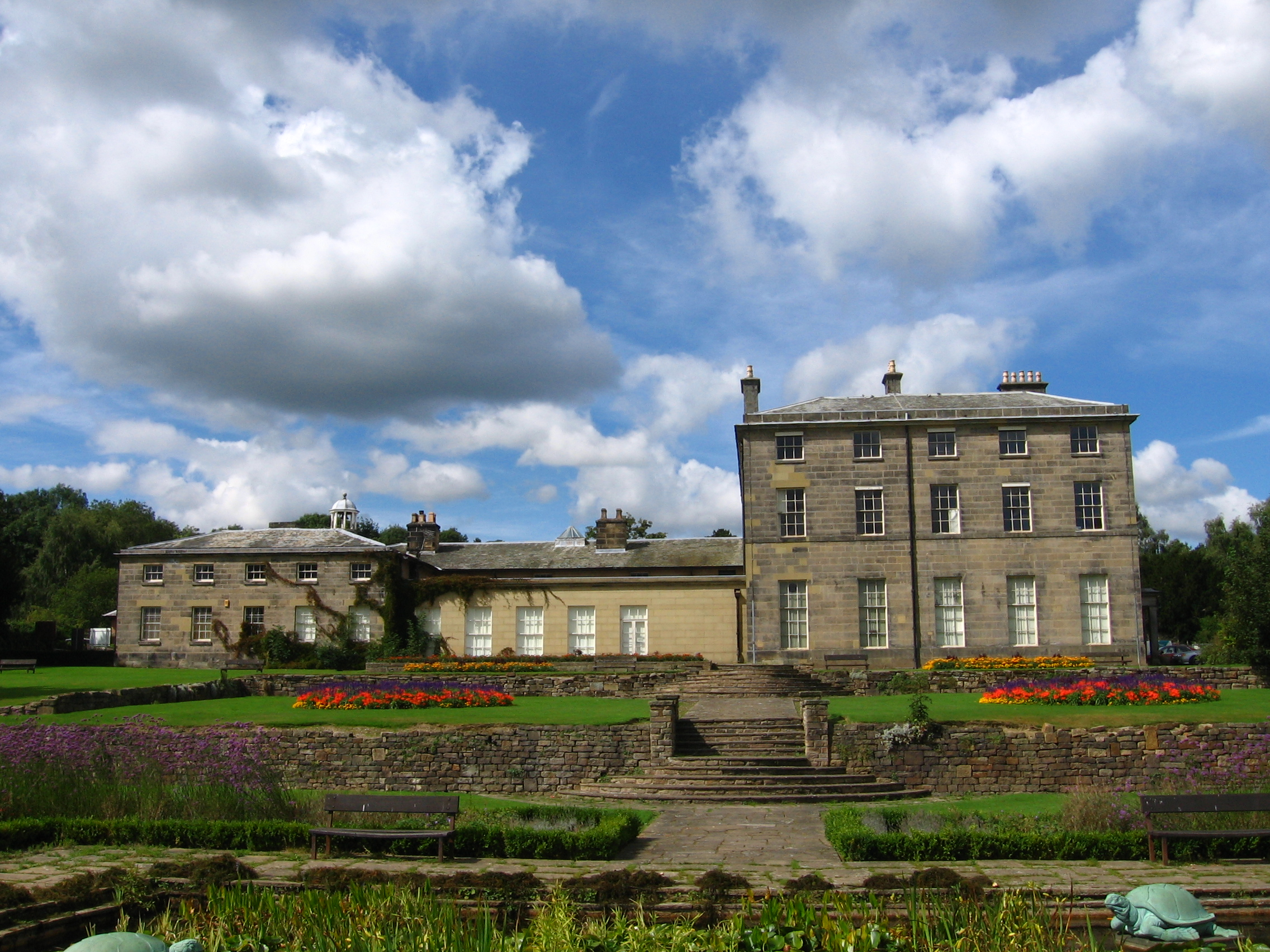 Allestree hall taken from the pond